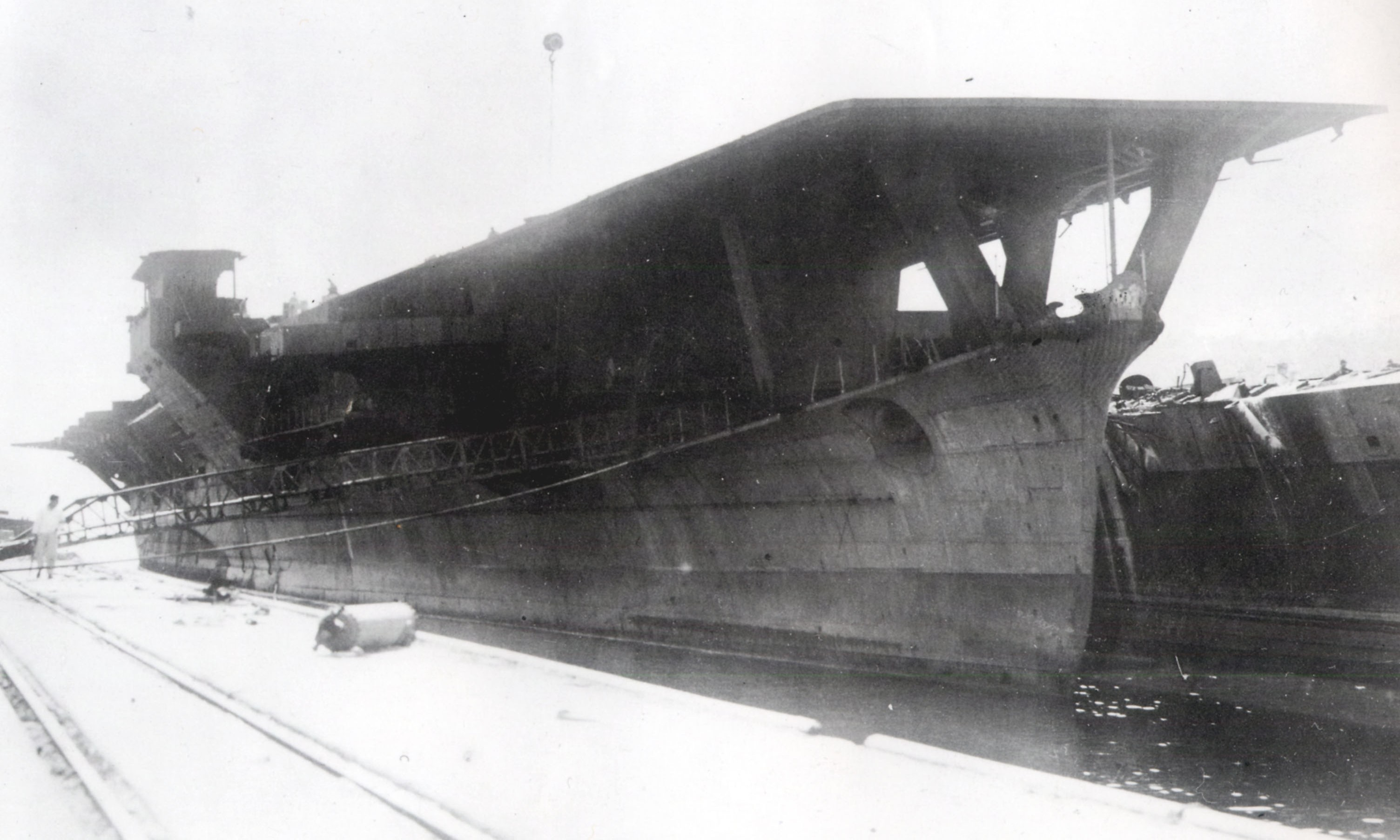 日本海軍航空母艦「伊吹」解体の為旧佐世保海軍工廠にて撮影された写真。 Ibuki, Imperial Japanese Navy aircraft carrier, under dismantling operation at Sasebo Factory, Japan. October, 1946